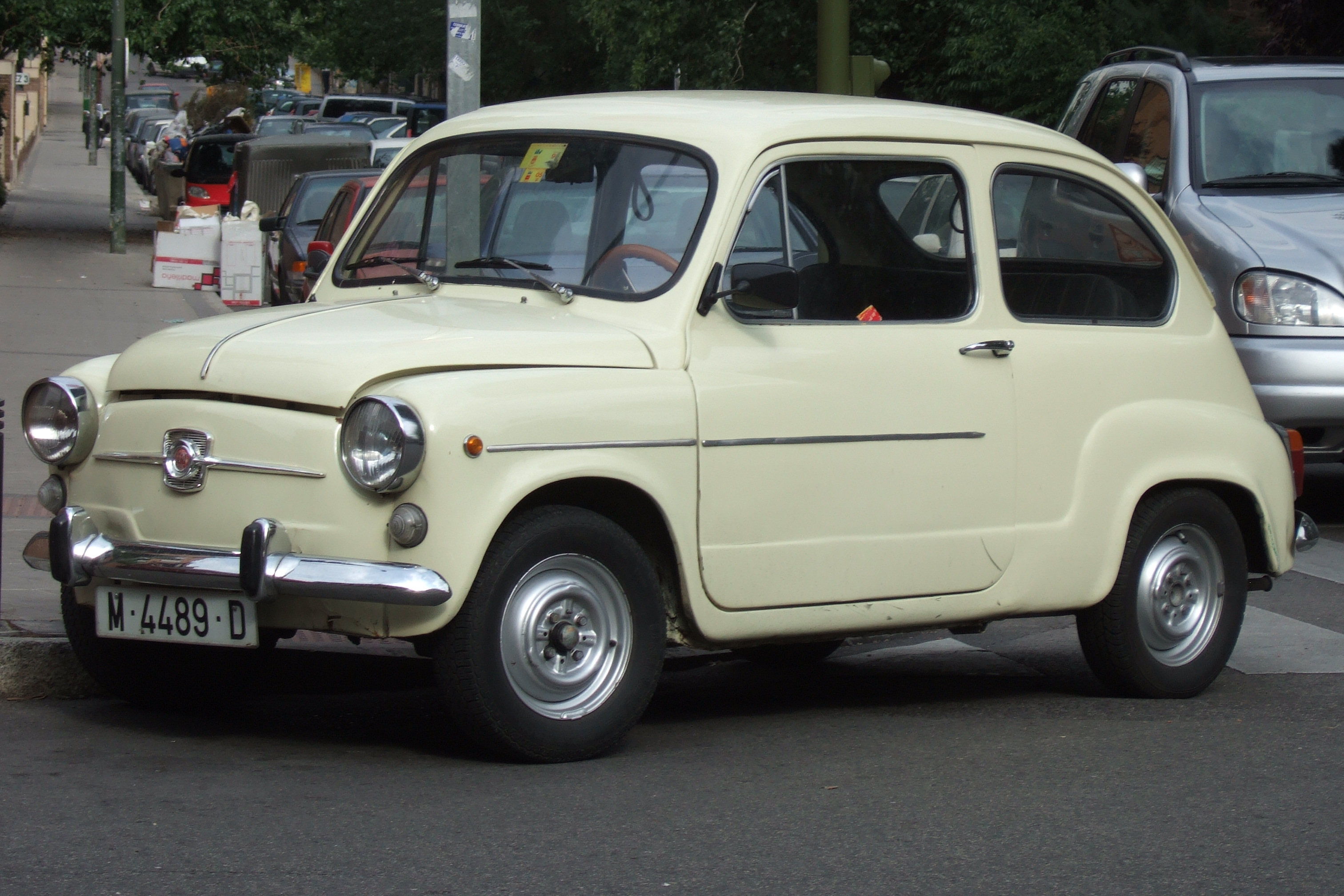 Seat 600